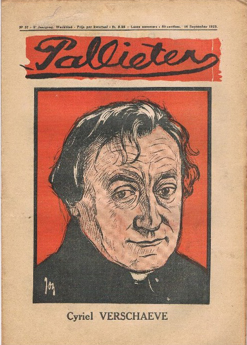 Cyriel Verschaeve. Front page of the Flemish magazine Pallieter (1922-1928). All front pages were designed and illustrated by Jos De Swerts (1890-1939).